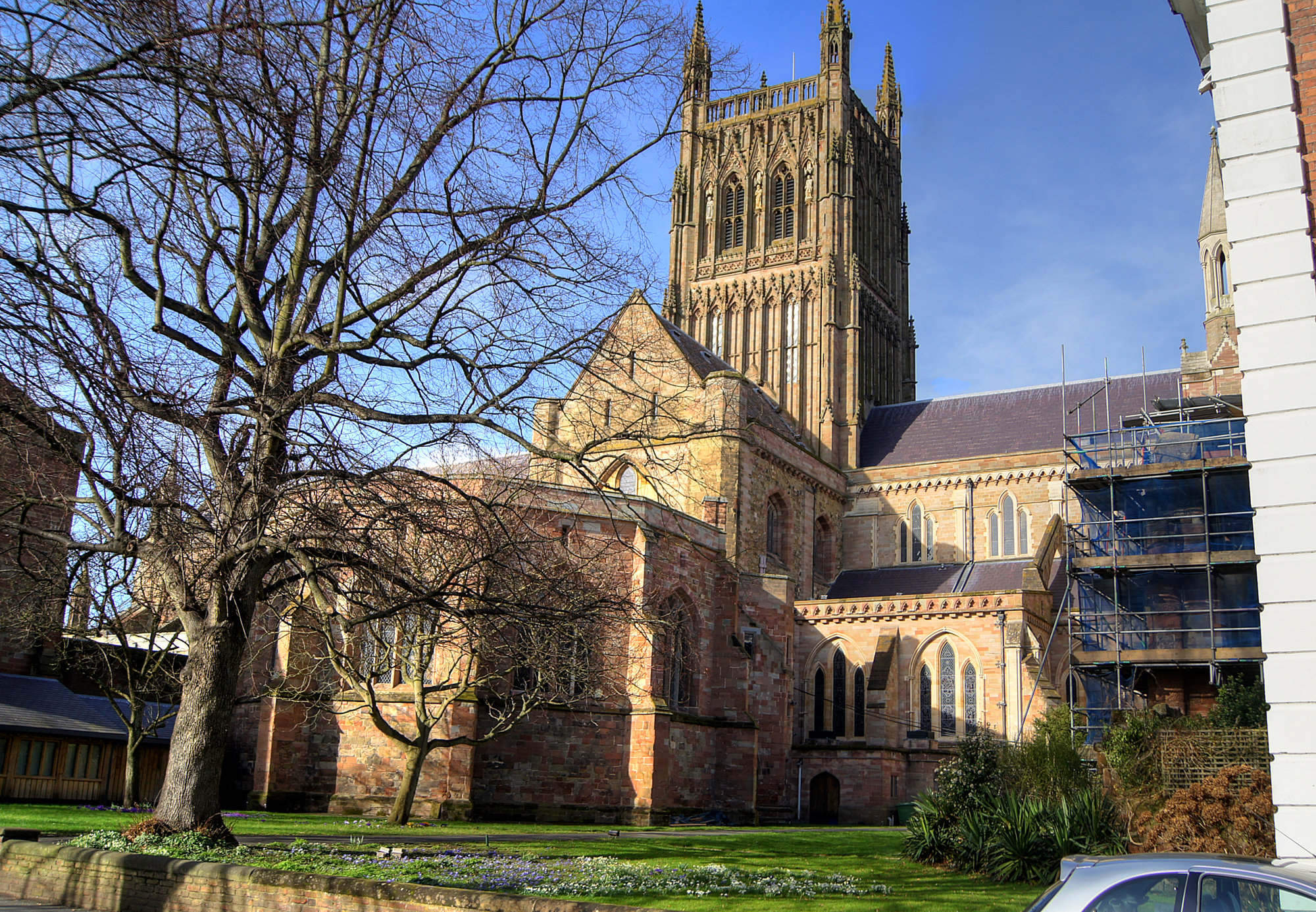 A photograph of Worcester Cathedral taken from College Green